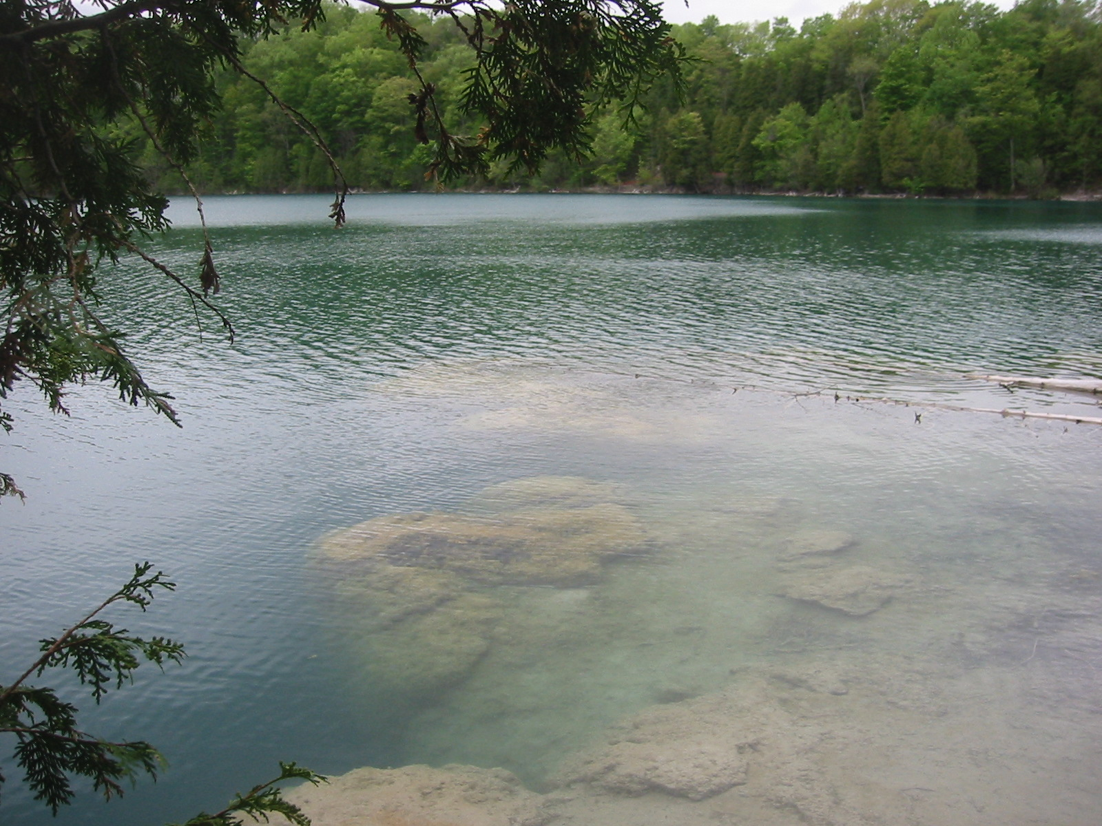 Deadman's Point at Green Lake in Green Lakes State Park, New York. "Marl reef", bacteria formed chalky shoreline formations, are visible in the foreground.